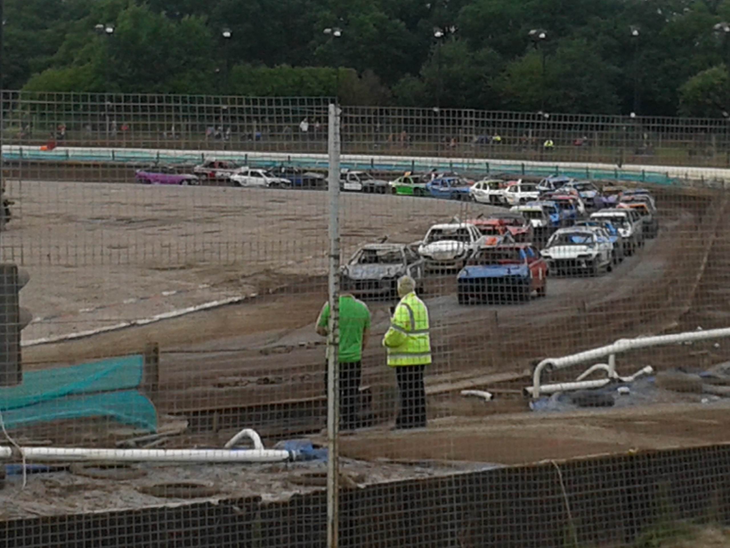 Banger racing at Coventry's Brandon Stadium, August 2014